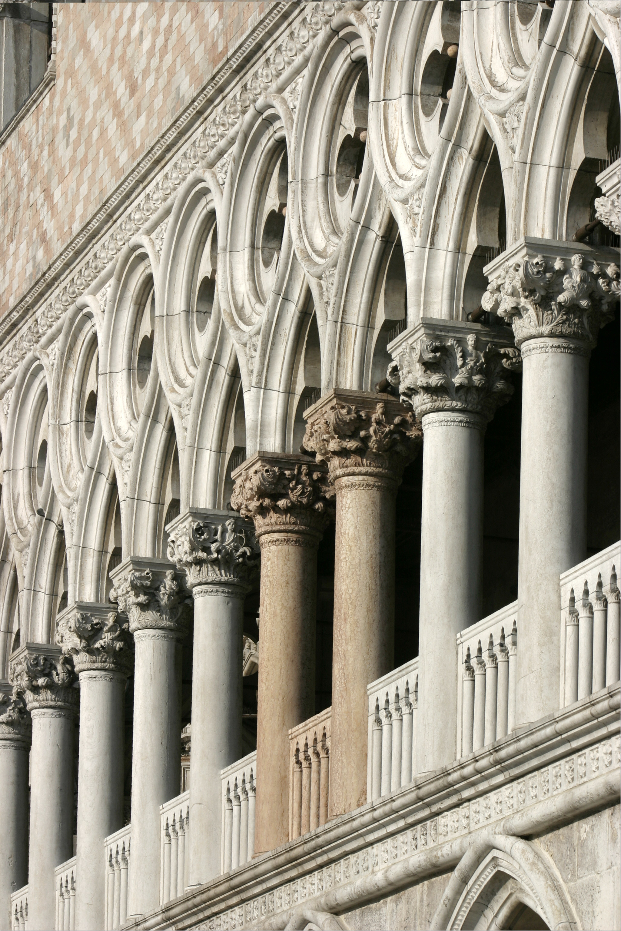 Venice – Doge’s Palace – Upper arcade – The arc of rosy marble was reserved for the Doge